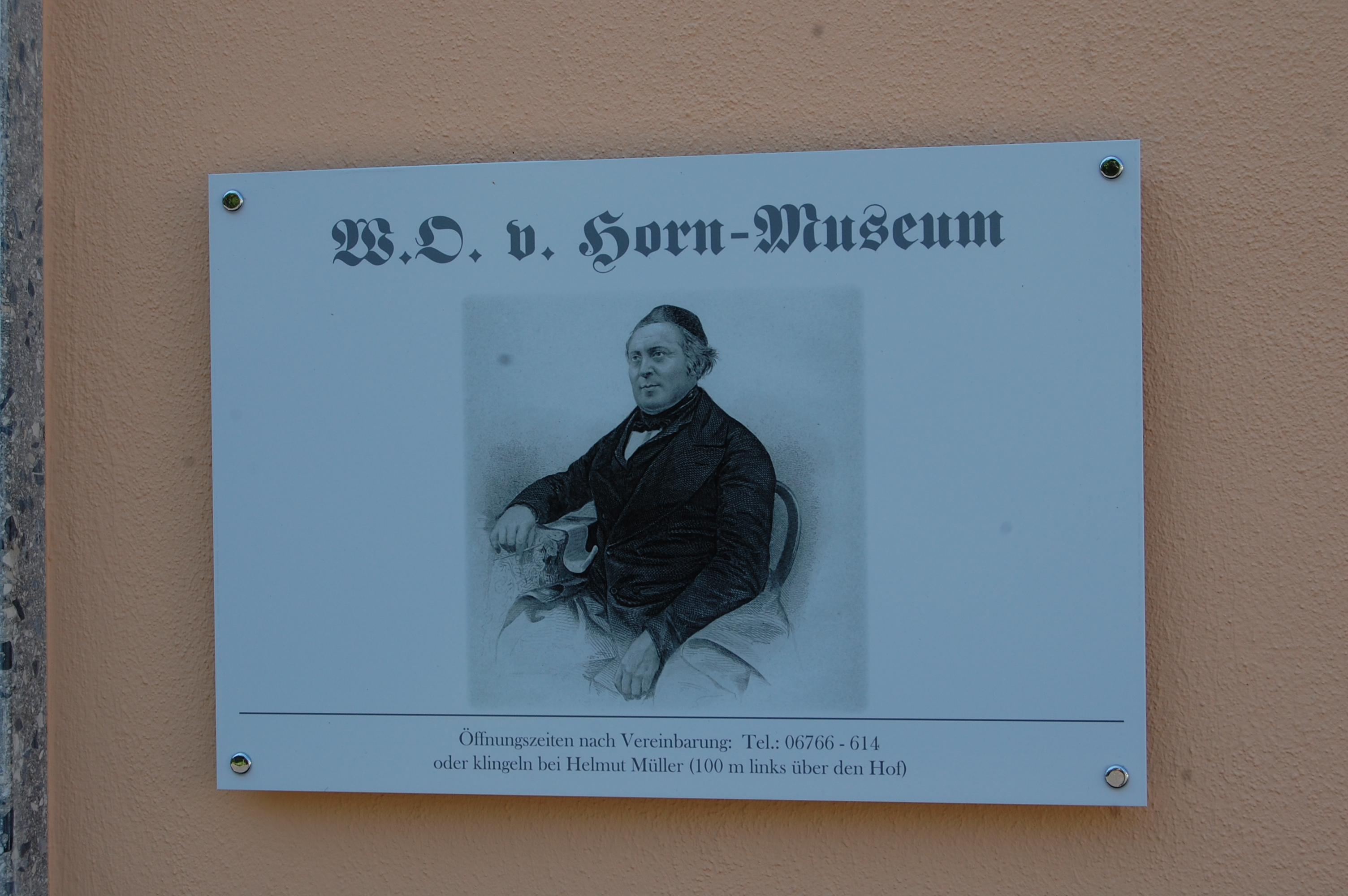 sign, Museum O.W. von Horn, Village Horn, Hunsrück landscape, Germany